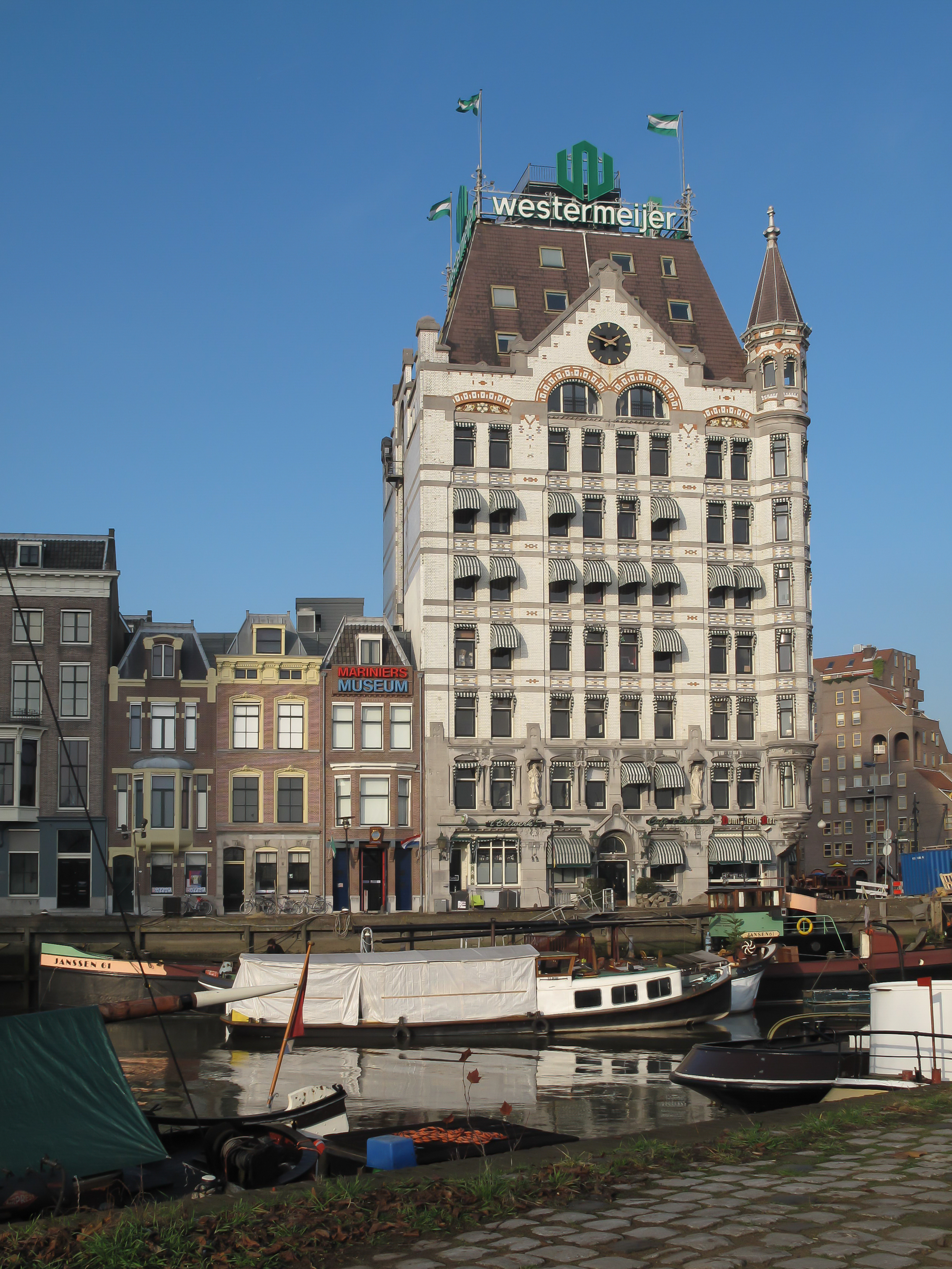 Rotterdam, het Witte Huis